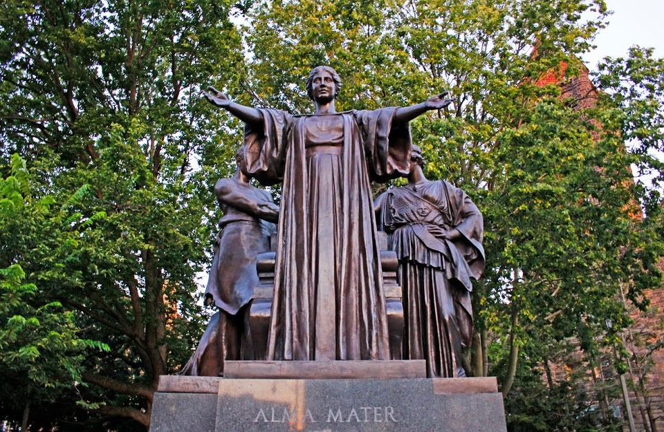 On June 11, 1929, the Alma Mater statue was unveiled. The Alma Mater was established by donations by the Alumni Fund and the classes of 1923-1929. The statue was originally stood behind the Auditorium until moved to its current location on August 22, 1962. The statue is located on the University of Illinois Urbana Champaign Campus